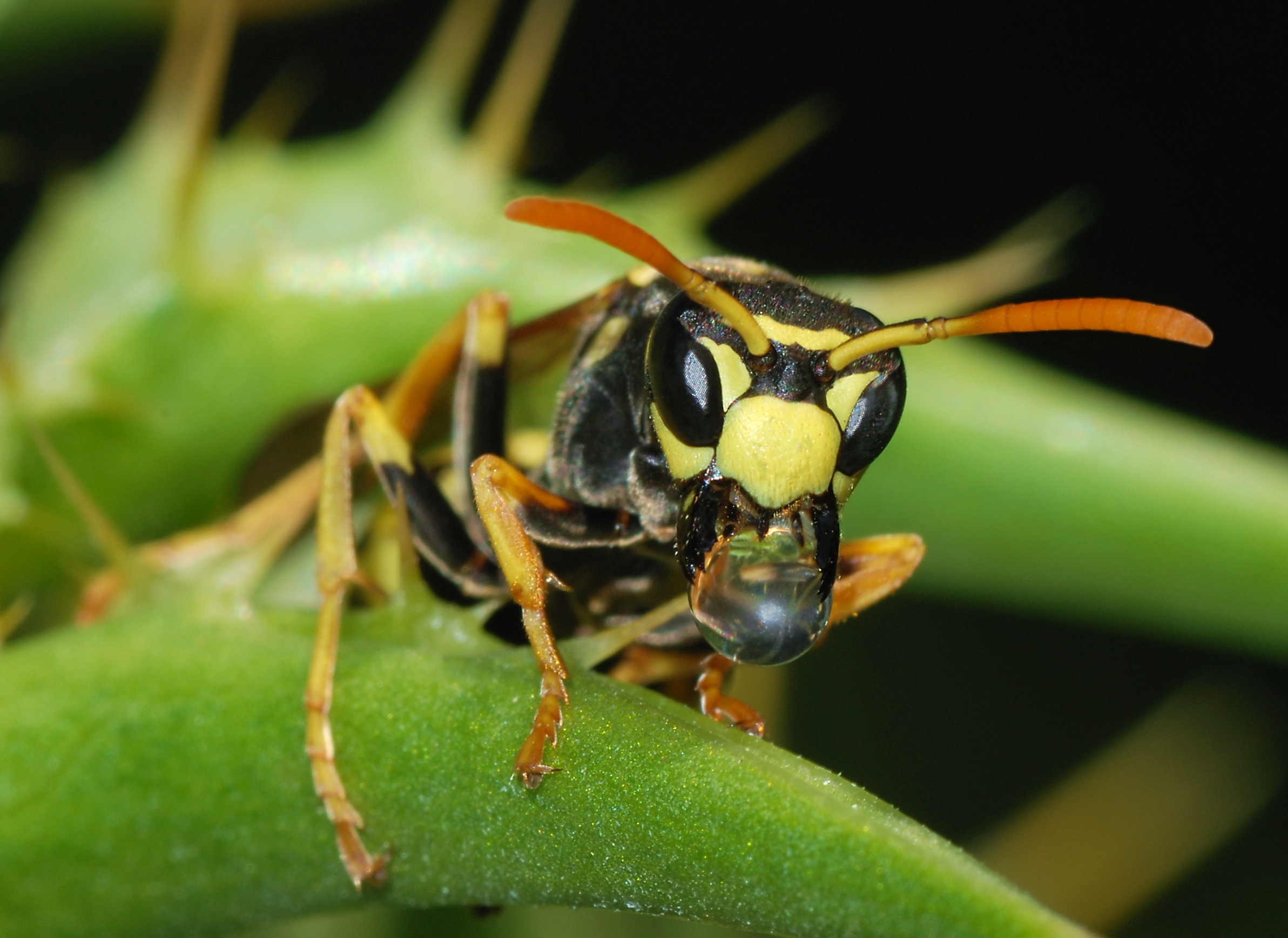 A European paper wasp (Polistes dominulus) with a bubble of regurgitated fluid.